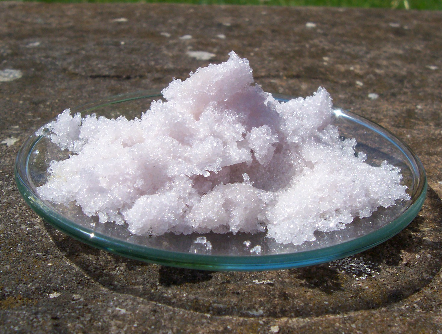 Photo of ferric nitrate nonahydrate, demonstrating its very light violet colour.